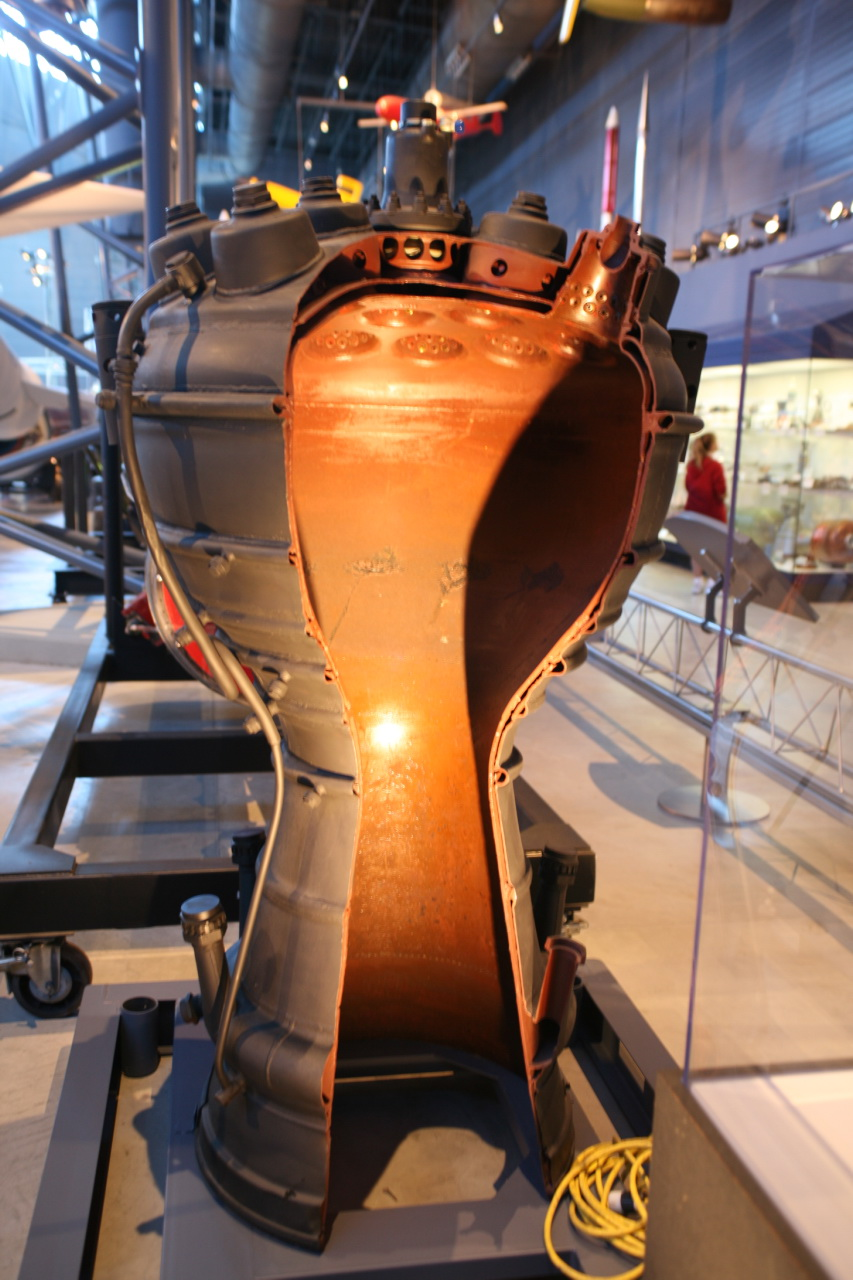 With a thrust of twenty-five metric tons, the V-2 motor was the world's first large, liquid-fuel rocket engine and powered the first ballistic missile, the German V-2 of World War II. The combustion chamber was the engine's heart and burned the propellants, water alcohol and liquid oxygen, at about 2,700 ºC (4,900 ºF). Water alcohol was injected through six pipes near the bottom of the chamber, moved up between the walls in order to cool the chamber, emerging through the sides of the eighteen injectors on top. Small pipes also injected alcohol into the chamber through rings of tiny holes in order to provide a insulating film of fuel along the walls. Liquid oxygen was injected directly into the top of the injector heads. A pyrotechnic igniter started combustion, after which burning was self-sustaining. Steven F. Udvar-Hazy Center.